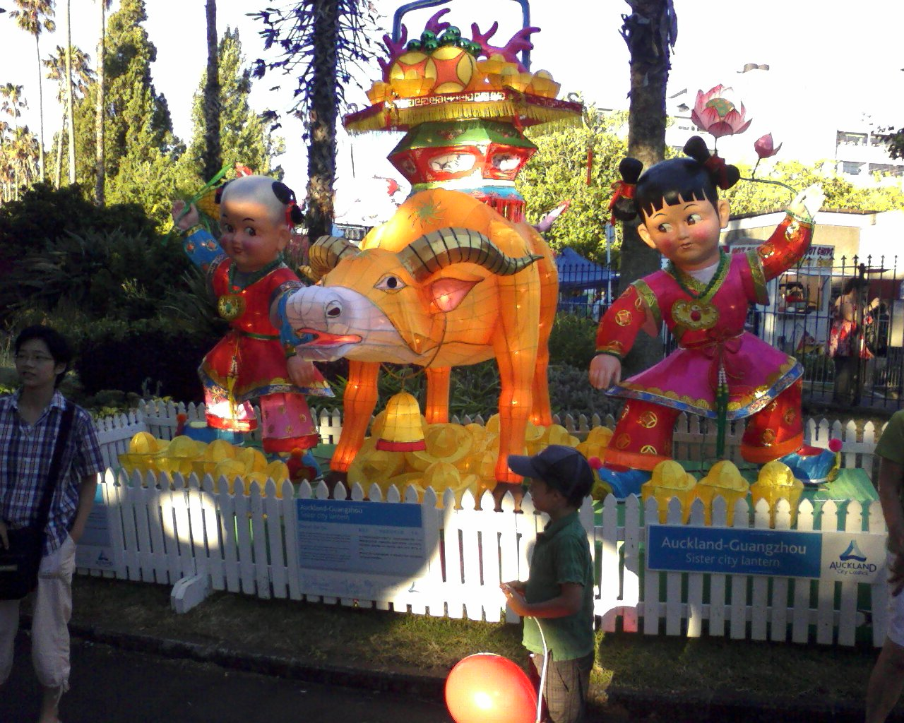 Year of the Ox lantern Gifted to Auckland City from the City of Guangzhou in China, one of Auckland's Sister Cities commemorating the 10th anniversary of the Auckland Lantern Festival in Albert Park and 21st anniversary of the sister city relationship.